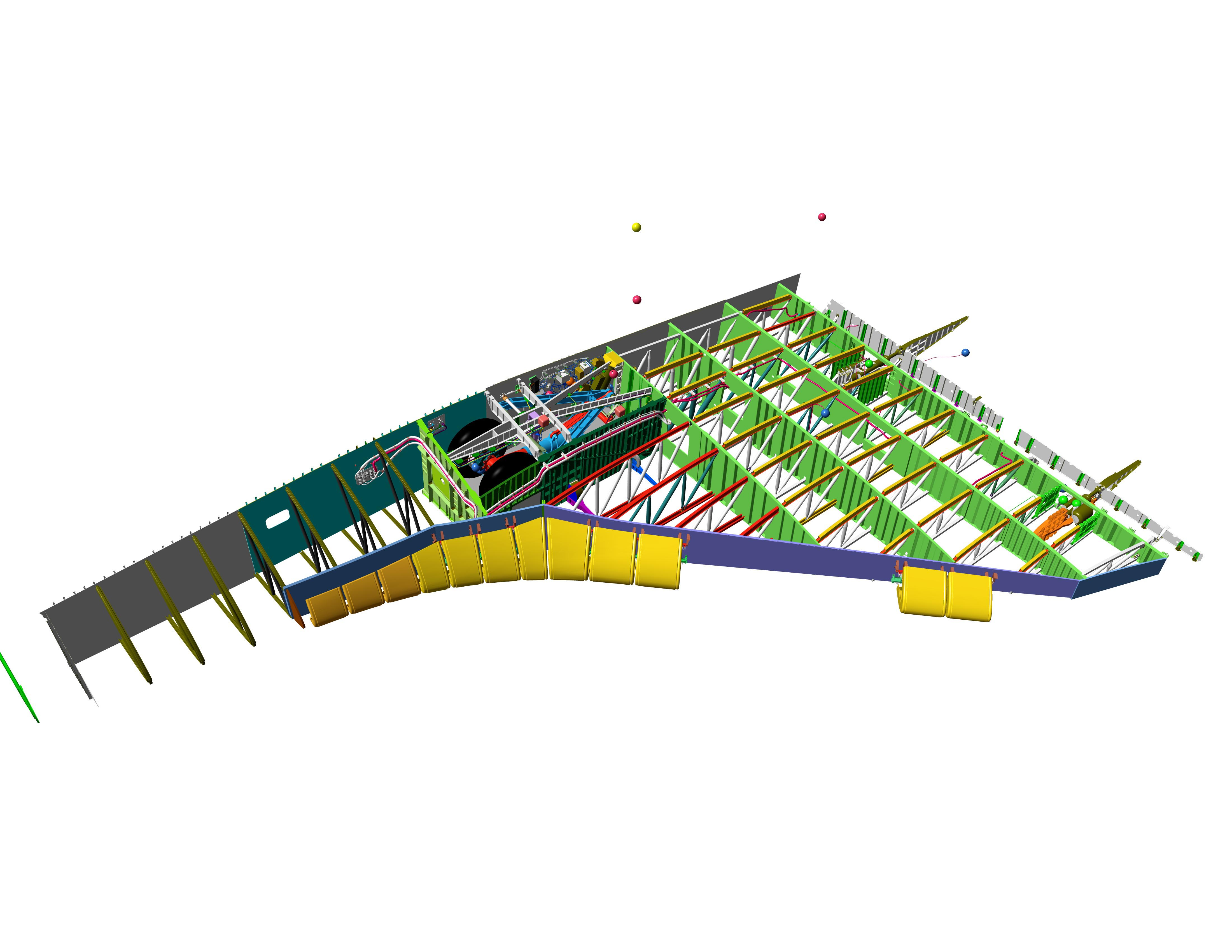 This detailed view represents a space shuttle left wing with Reinforced Carbon-Carbon, or RCC, panels with only those panels numbered 1 through 10, 16 and 17 shown. Each wing's leading edge has 22 RCC panels.